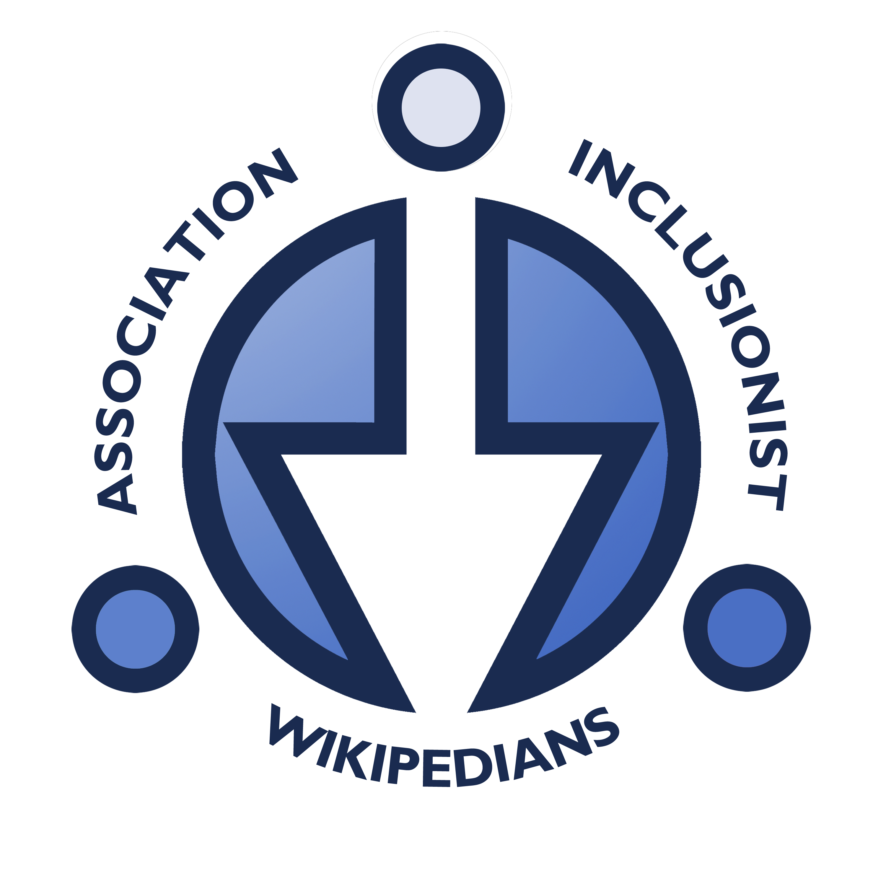 Proposal Logo of the Association of Inclusionist Wikipedians: The Inclusionist logo encloses all the principles that drive inclusionist members of wikipedia: it’s round, the shape of completeness, with an open arrow, to let enter all the knowledge; The arrow outline form a stylized hug tha enbrace every argoument, and an “I”, the initial letter of the “inclusionism” word. It’s blue, reperesenting the infinite sky, and white, the tint made by all the colors.